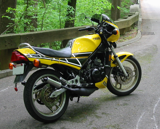 Yamaha RZ 350 Kenny Roberts Special of 1985